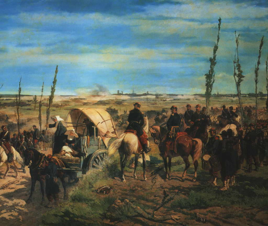 The Italian Camp at the Battle of Magenta by Giovanni Fattori